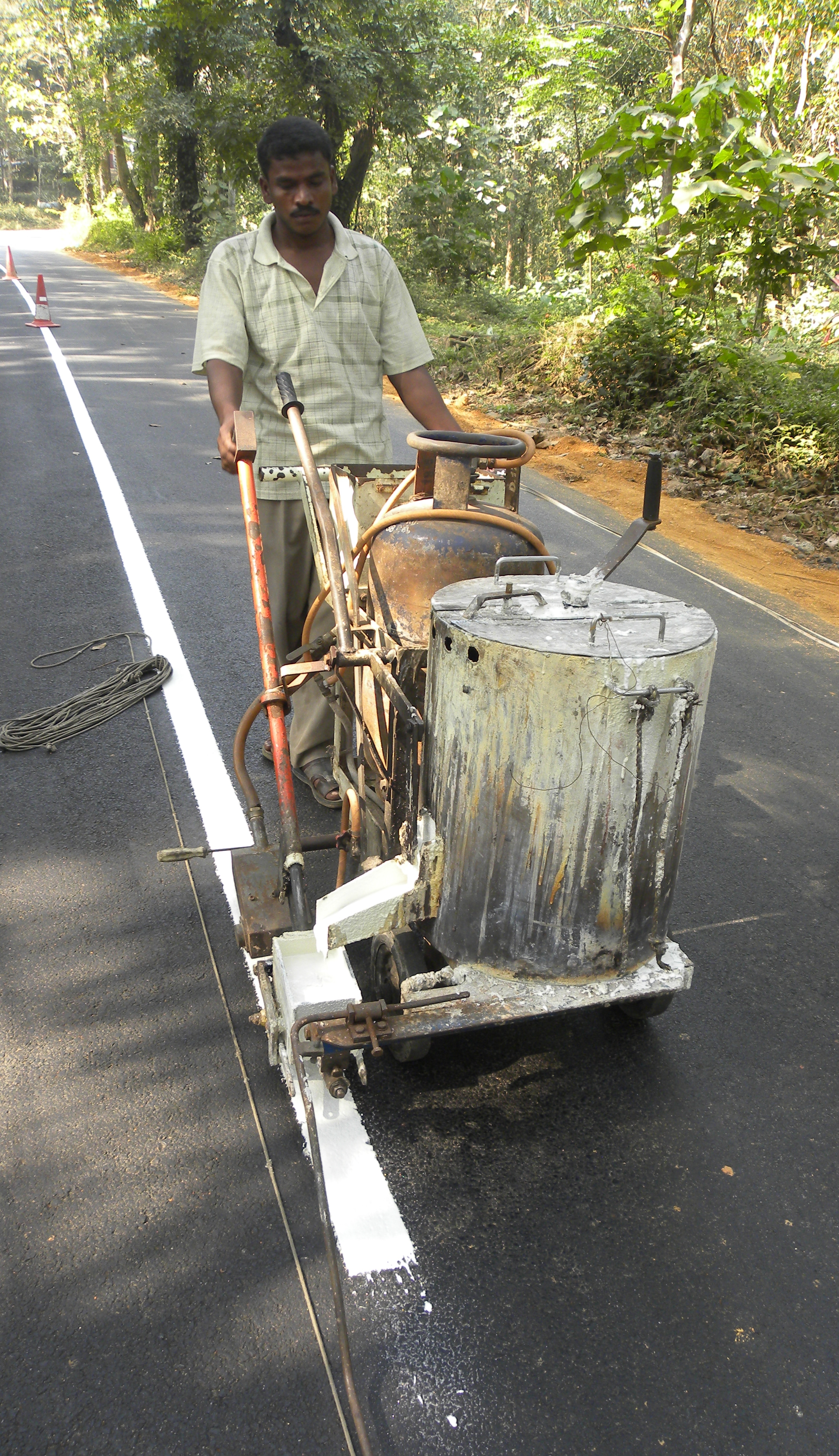 Drawing lines on the road